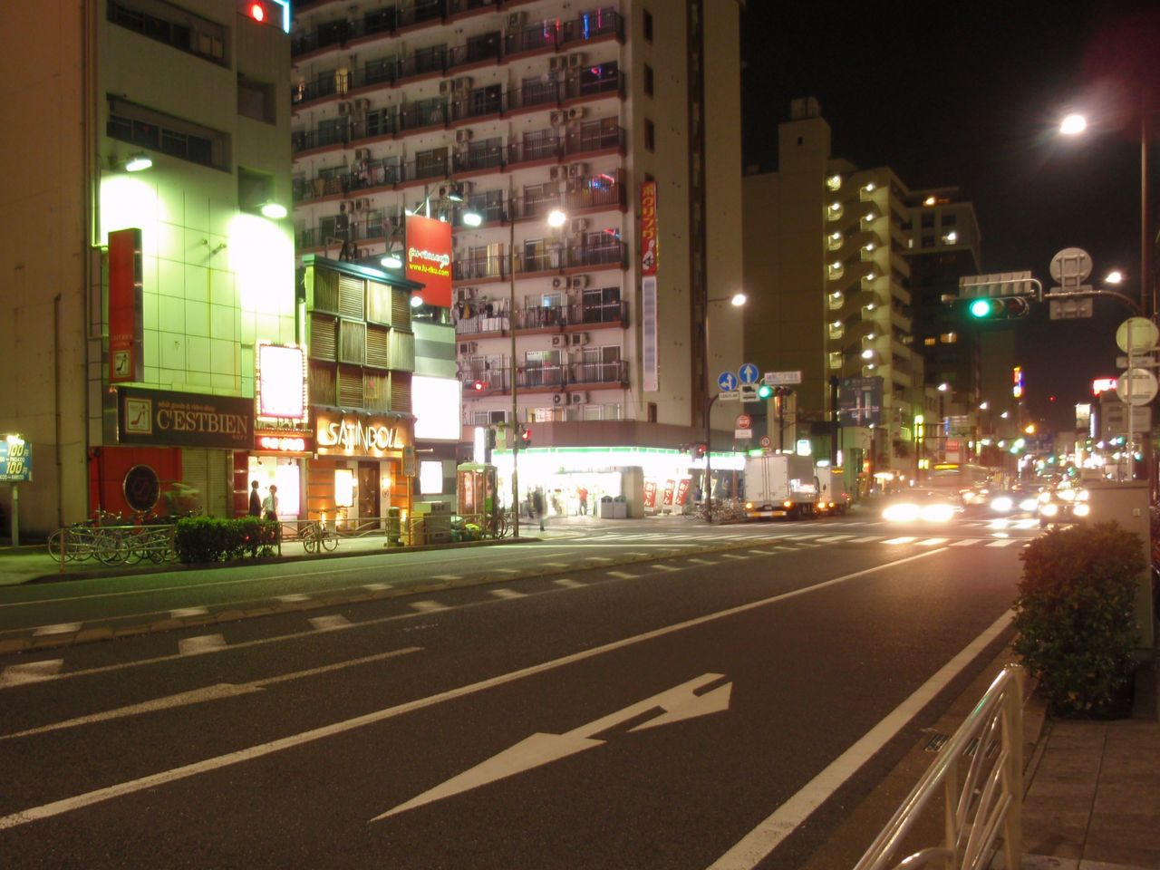 Akebonocho Naka-ku, Yokohama, Kanagawa Pref. in Japan